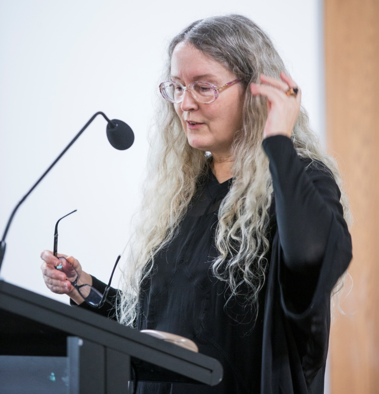 Elizabeth Knox at the 2014 WORD Christchurch writers' festival